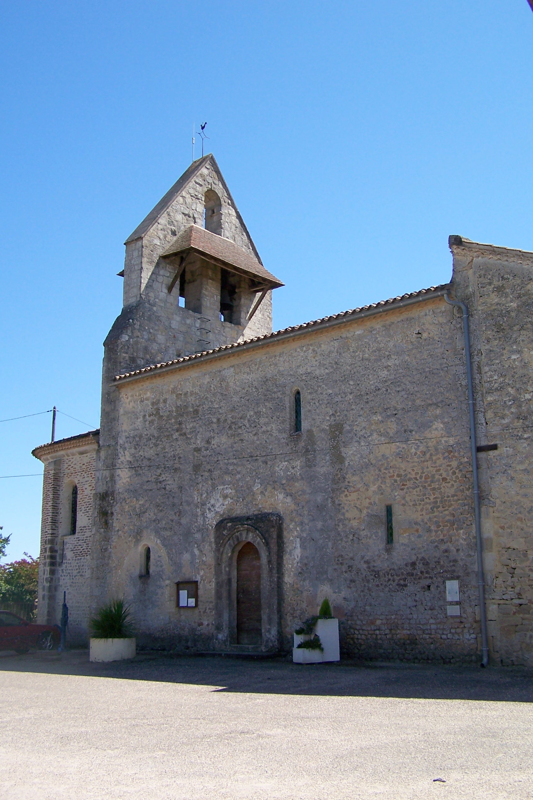 Church of Bagas (Gironde, France)